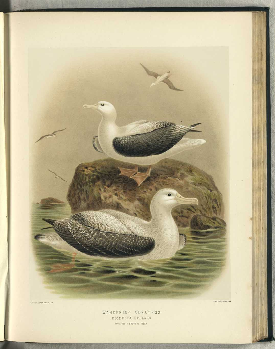 Illustration of a Wandering Albatross.